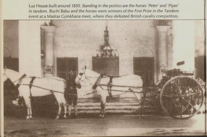 Luz House in Chennai, Tamil Nadu, built around 1850. Horses Peter and Piper stand in tandem. Buchi Babu and the horses won tandem event at Madras Gymkhana, where they defeated British cavalry competitors.